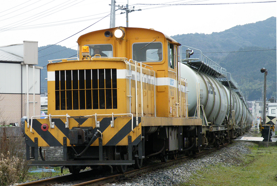 UCS's Limestones freight train at Mine Sta., Yamaguchi, Japan.